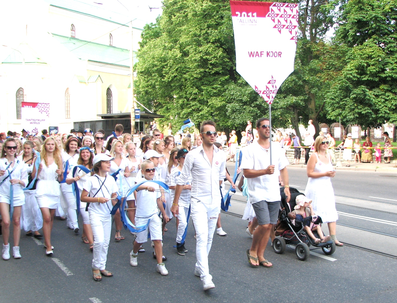 WAF choir in the procession of 11th Youth Song and Dance Celebration